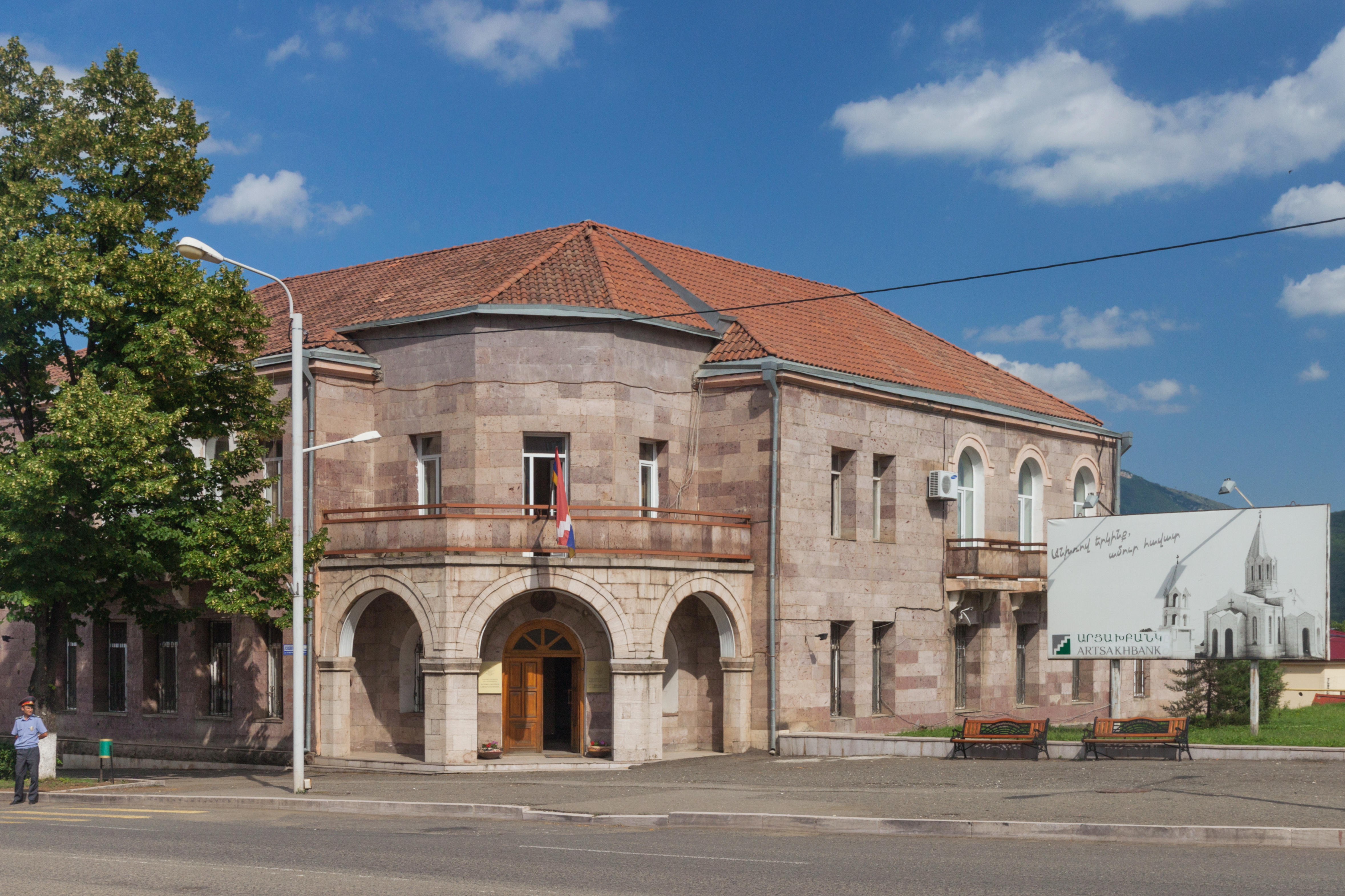 Building of the Ministry of Foreign Affairs of the Nagorno-Karabakh Republic. Stepanakert/Xankəndi, Nagorno-Karabakh.